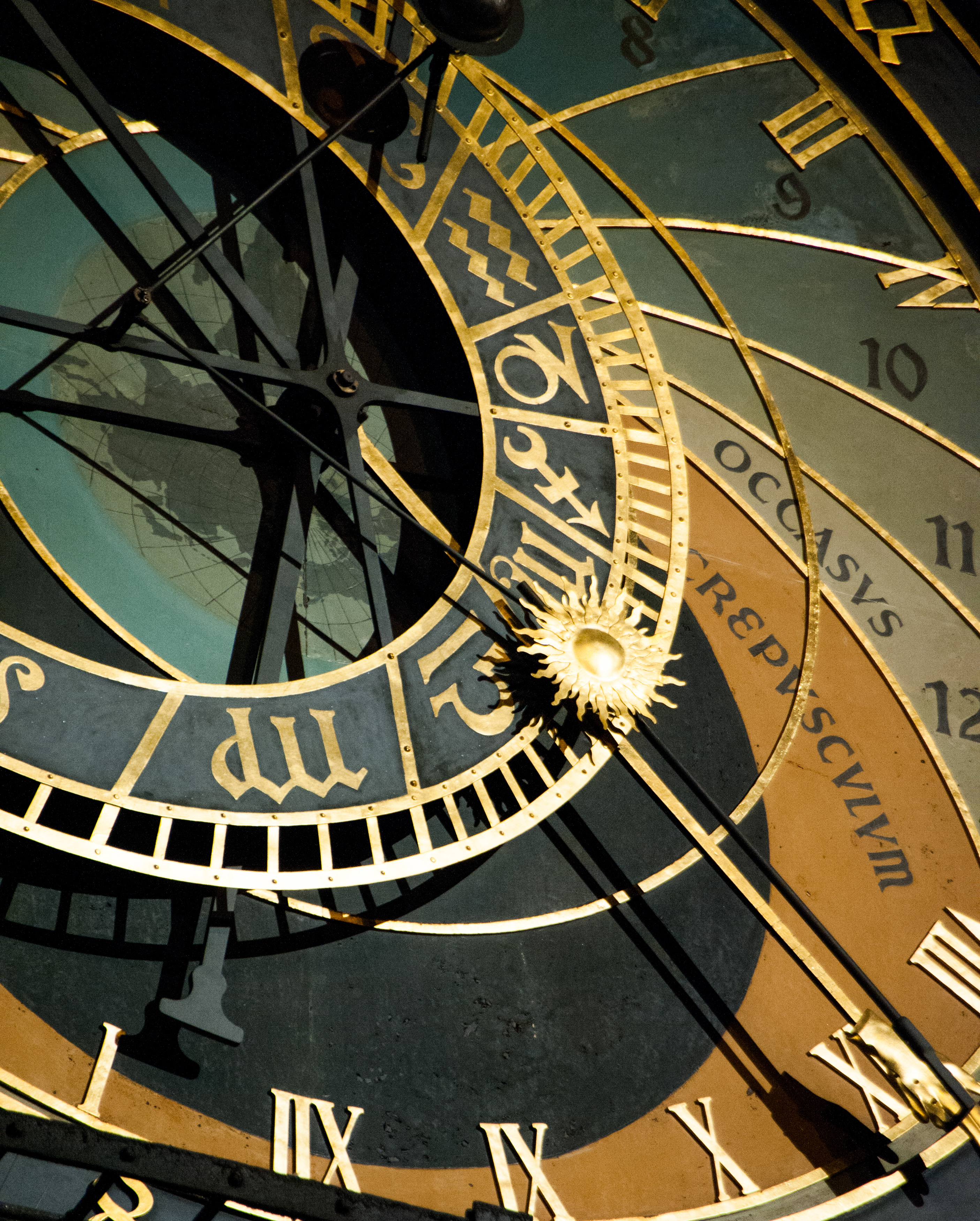 The Prague astronomical clock (Prague orloj), fragment. Prague, Czech Republic, Western Europe. October 24, 2012